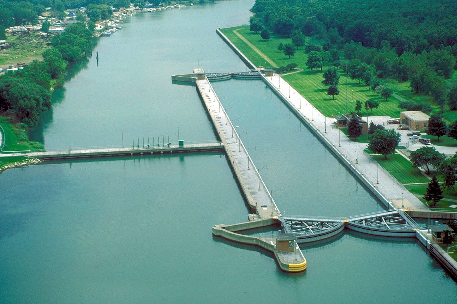 Aerial view of T.J. O’Brien Lock and Dam on the Calumet River, which is part of the Illinois Waterway. The dam is situated at river mile 326.5 on the Waterway (326.5 river miles up from the Mississippi River). T.J. O’Brien lock is the uppermost lock on the waterway, and there is not another barrier between the lock and Lake Michigan. There is very little elevation change in the lock, which serves mainly to regulate water flow from Lake Michigan into the waterway. The dam is located in Chicago, Illinois.